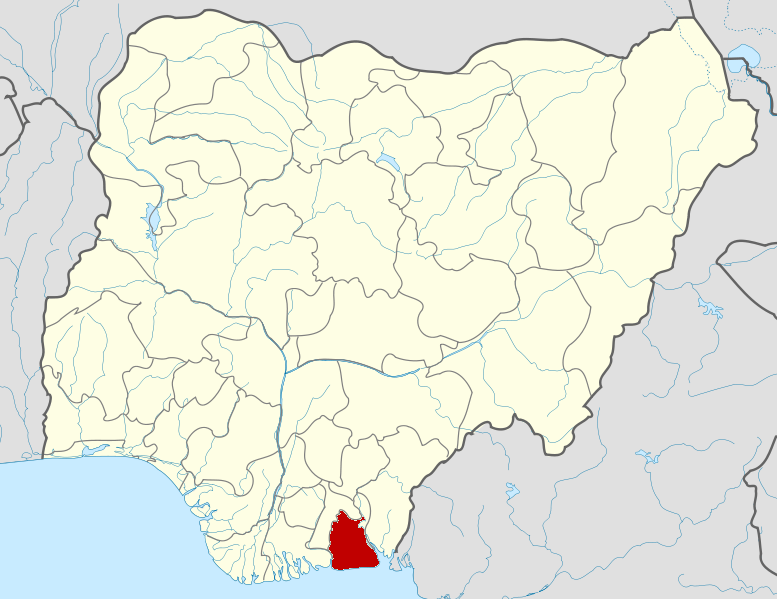 Map locator of Nigeria.